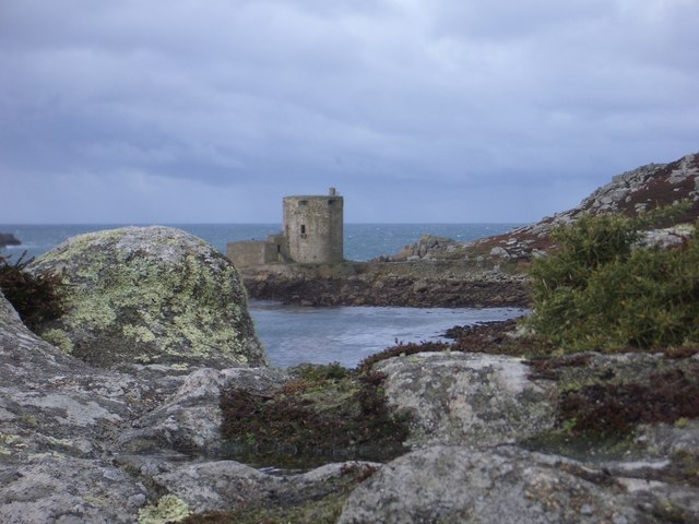 Cromwell's Castle, Tresco Cromwell's Castle on Tresco